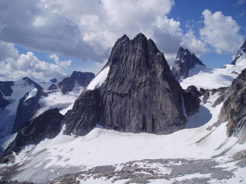 Snowpatch Spire in the Bugaboos in British Columbia. Pigeon Spire shows in the background on the right, Hound's Tooth (mountain) and Marmolata on the left. I took this picture. You may use or redistribute it at will, as long as you include a credit for my work. (Please let me know if you use it -- I've love to know about its use.) This license for this image covers the uploaded resolution and any lower resolution variant. If you'd like a higher-resolution copy (up to 2272x1704, 2,2MB), pop me a note.